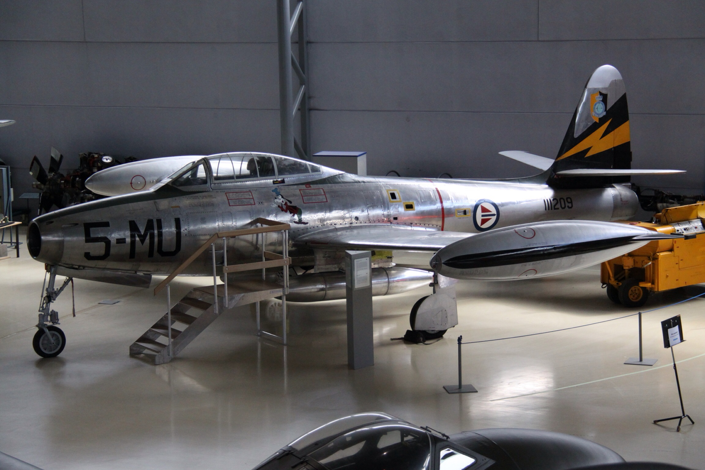 At Oslo Gardermoen